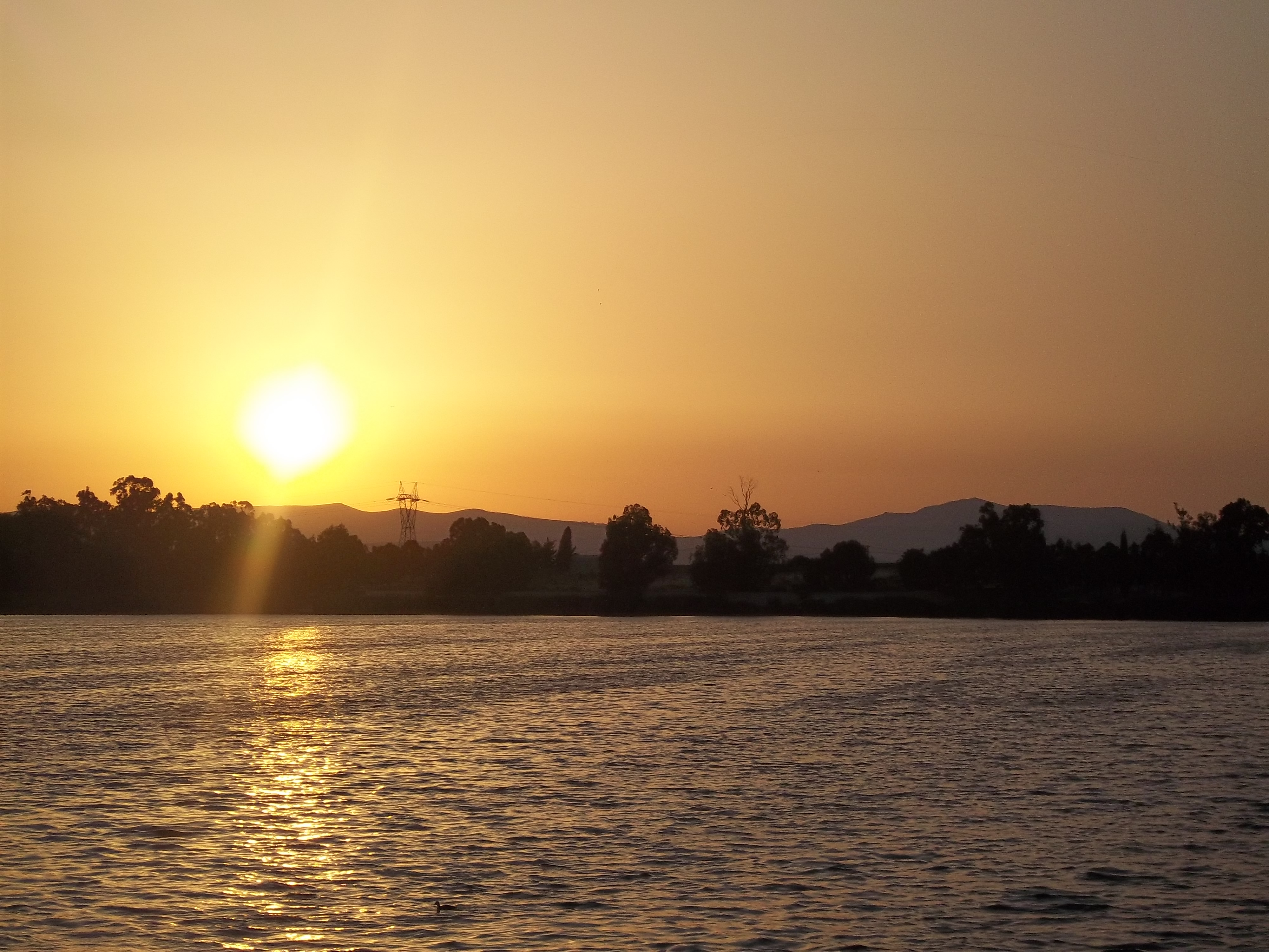 sunset lake sidi bel abbes algeria